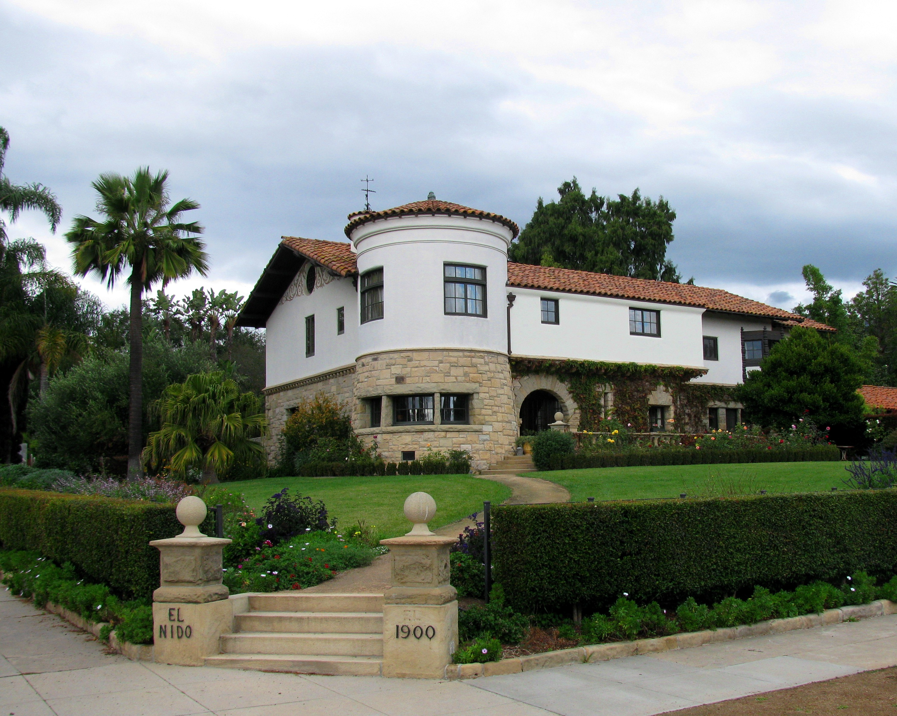 Hopkins Home, corner of Garden and Pedregosa, Santa Barbara CA: architect Francis W. Wilson; GFDL/equiv, photo by self, 11/12/11